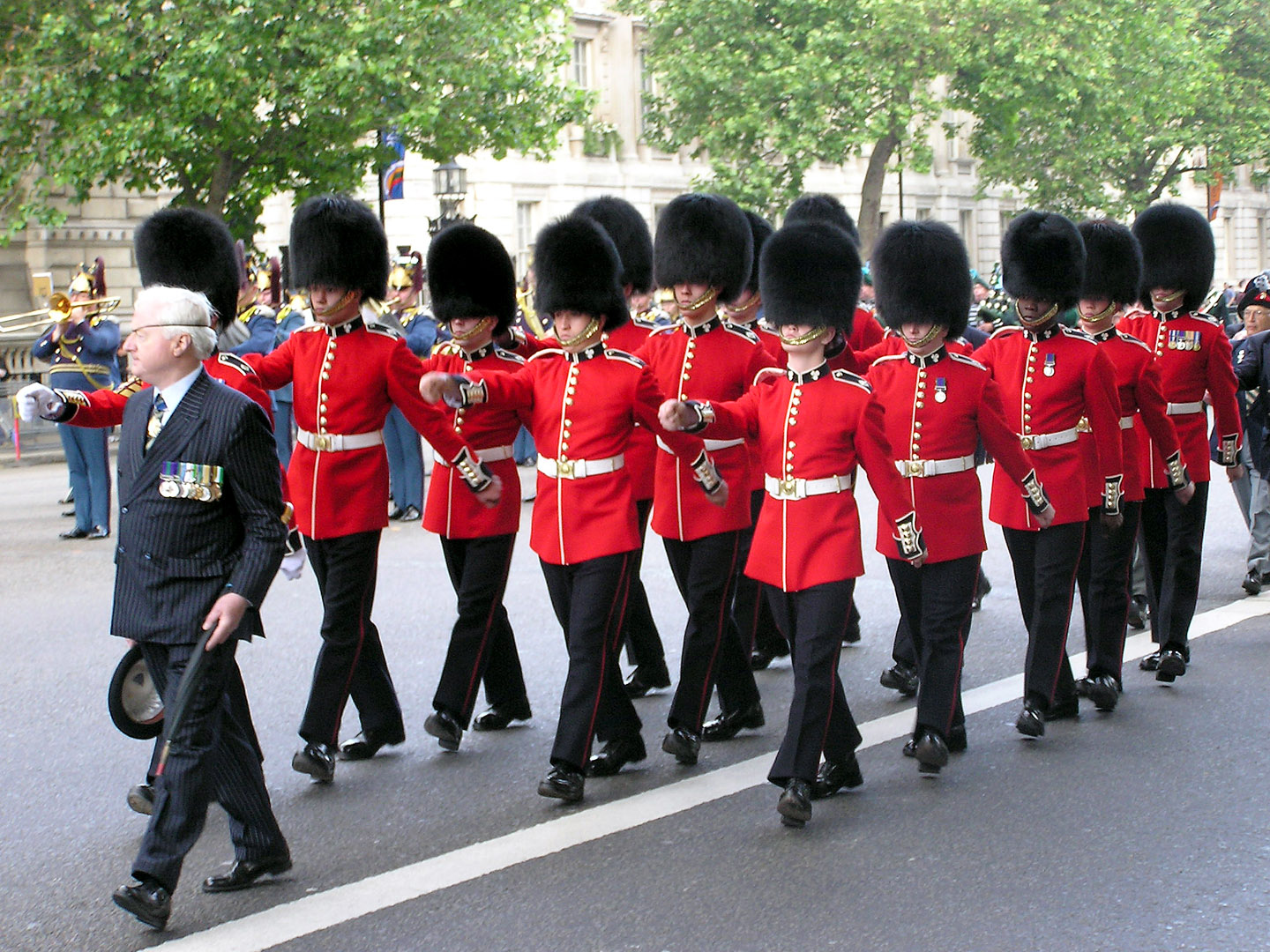 Irish Guards, wearing bearskins, march to the Cenotaph (Whitehall, London, England) on June 12th 2005, for a service of remembrance for Irish soldiers.